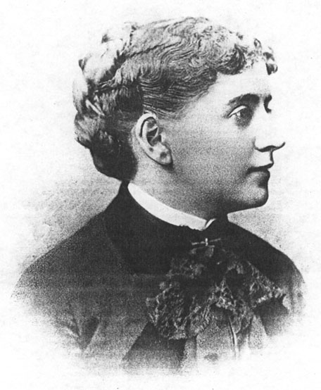 Ida Craddock, US writer and freedom of speech activist